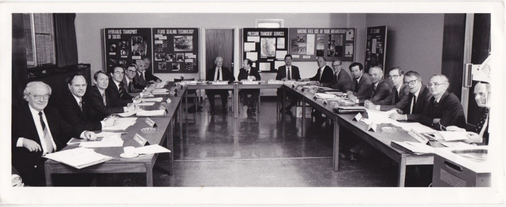 Heads of Department Meeting at the British Hydromechanics Research Association (BHRA) in the 1970s; Don Miller is fifth from the right